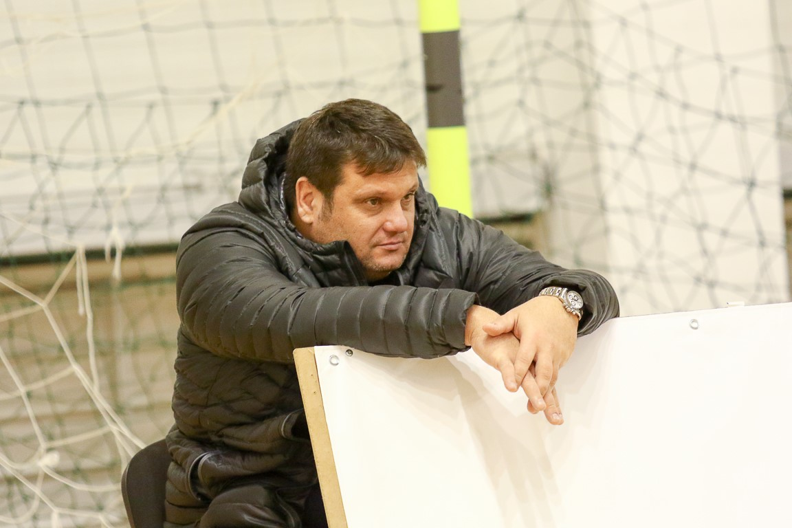 Martin Stoev - former Bulgarian volleyball player, volleyball coach, former coach of the national volleyball team of Bulgaria